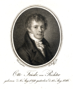 Portrait of German orientalist and explorer Otto Friedrich von Richter (1792—1816). Frontispiece from: Otto Friedrichs von Richters Wallfahrten in Morgenlande. Hrsg. J. PH. G. Ewers. Berlin, 1822.